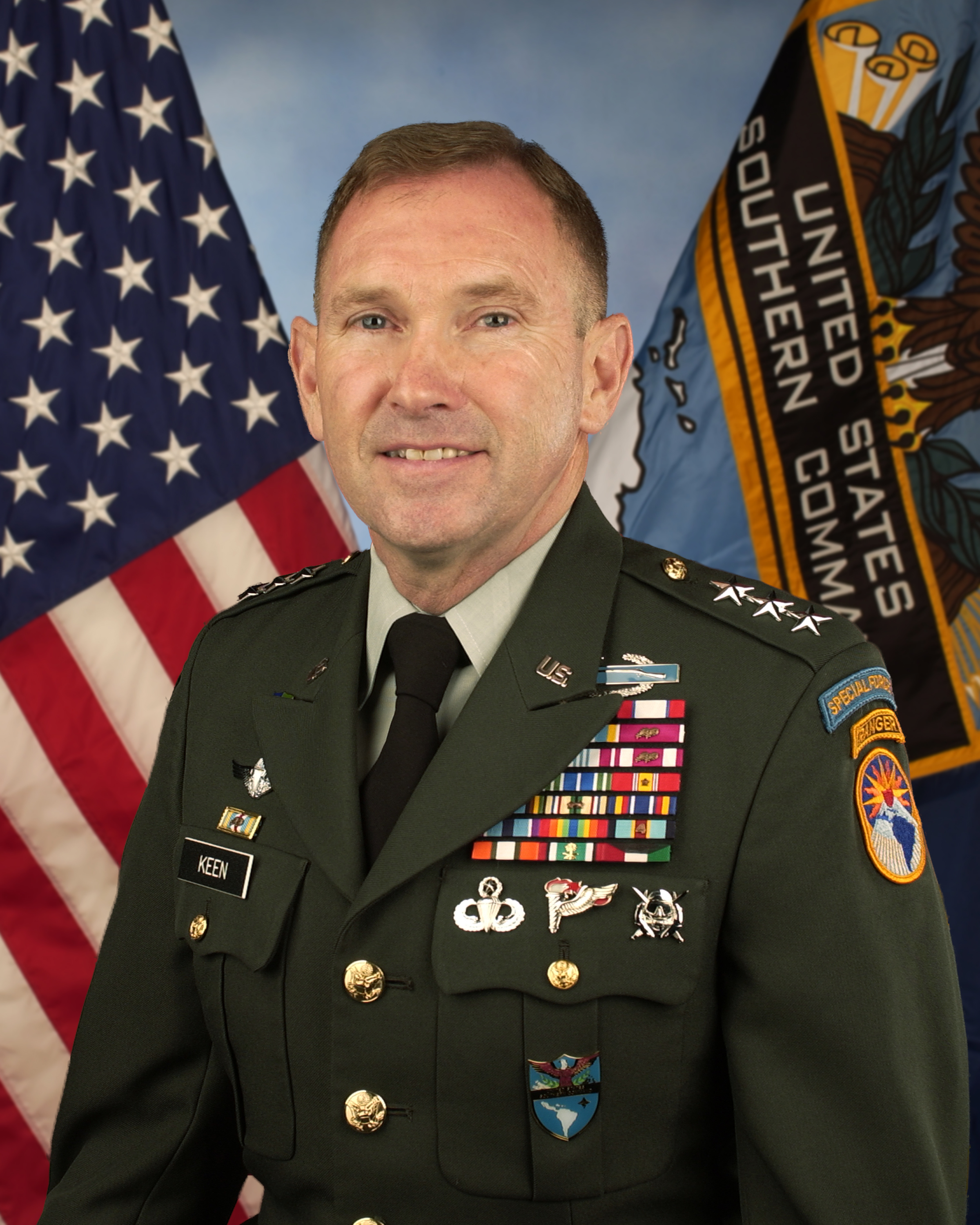 Lieutenant General P. K. (Ken) Keen Military Deputy Commander USSOUTHCOM